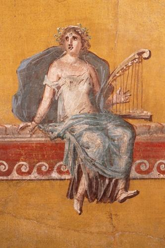 Fresco, part of the painting of a room in a Roman villa at the foot of Vesuvius, probably in Boscoreale. Height of the figure about 23 cm. State Museum of Württemberg.